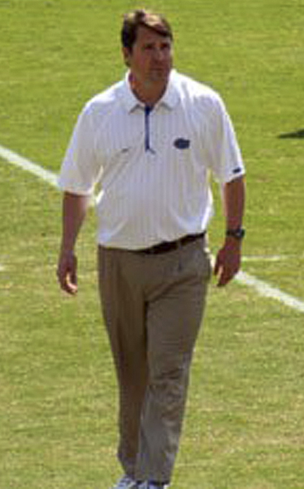 Florida Head Coach Will Muschamp observes during warm-ups of the 2011 Orange and Blue Debut spring game